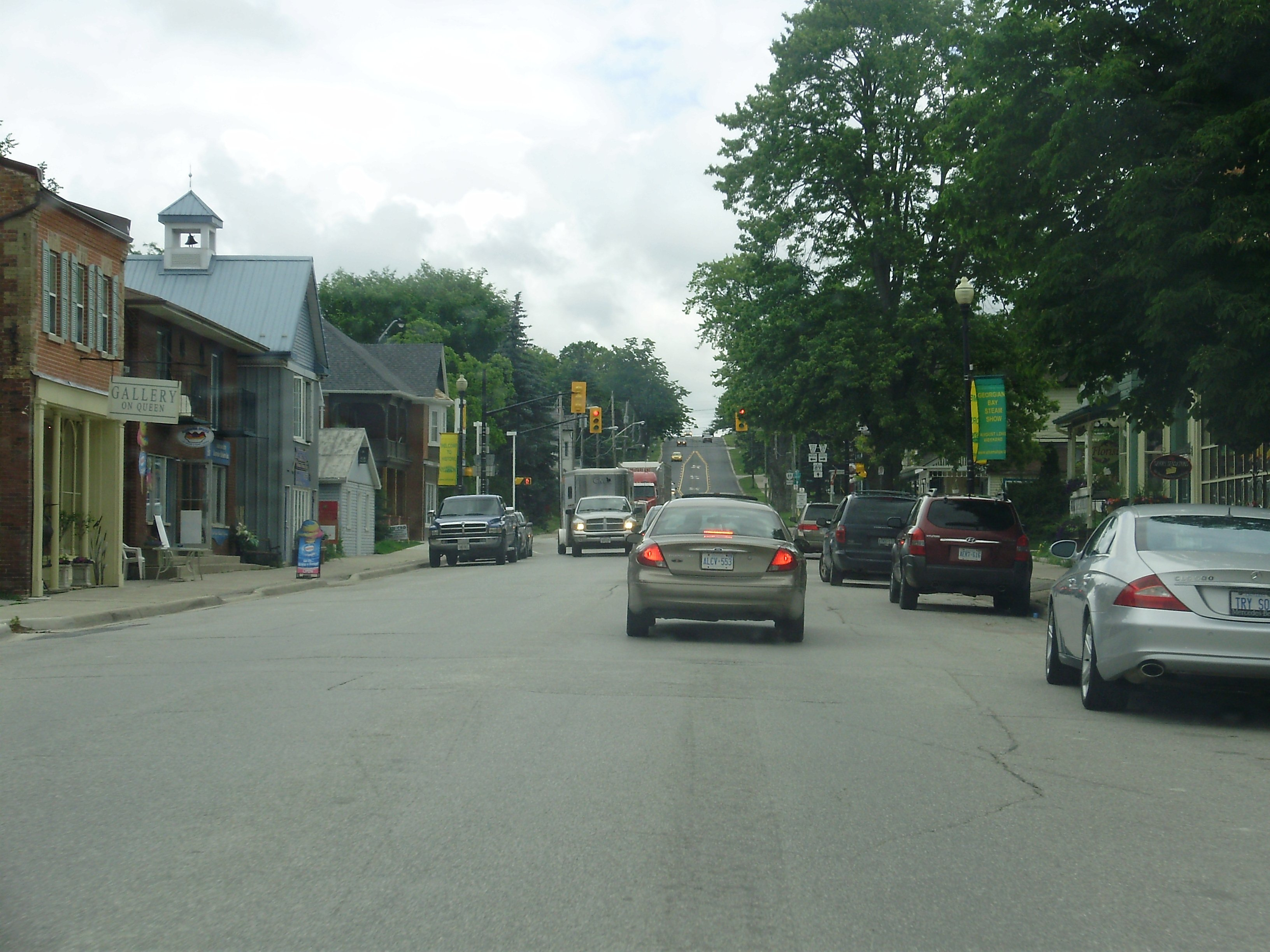 Looking east along Highway 89 as it passes through the community of Cookstown in Innisfil, Ontario, Canada.